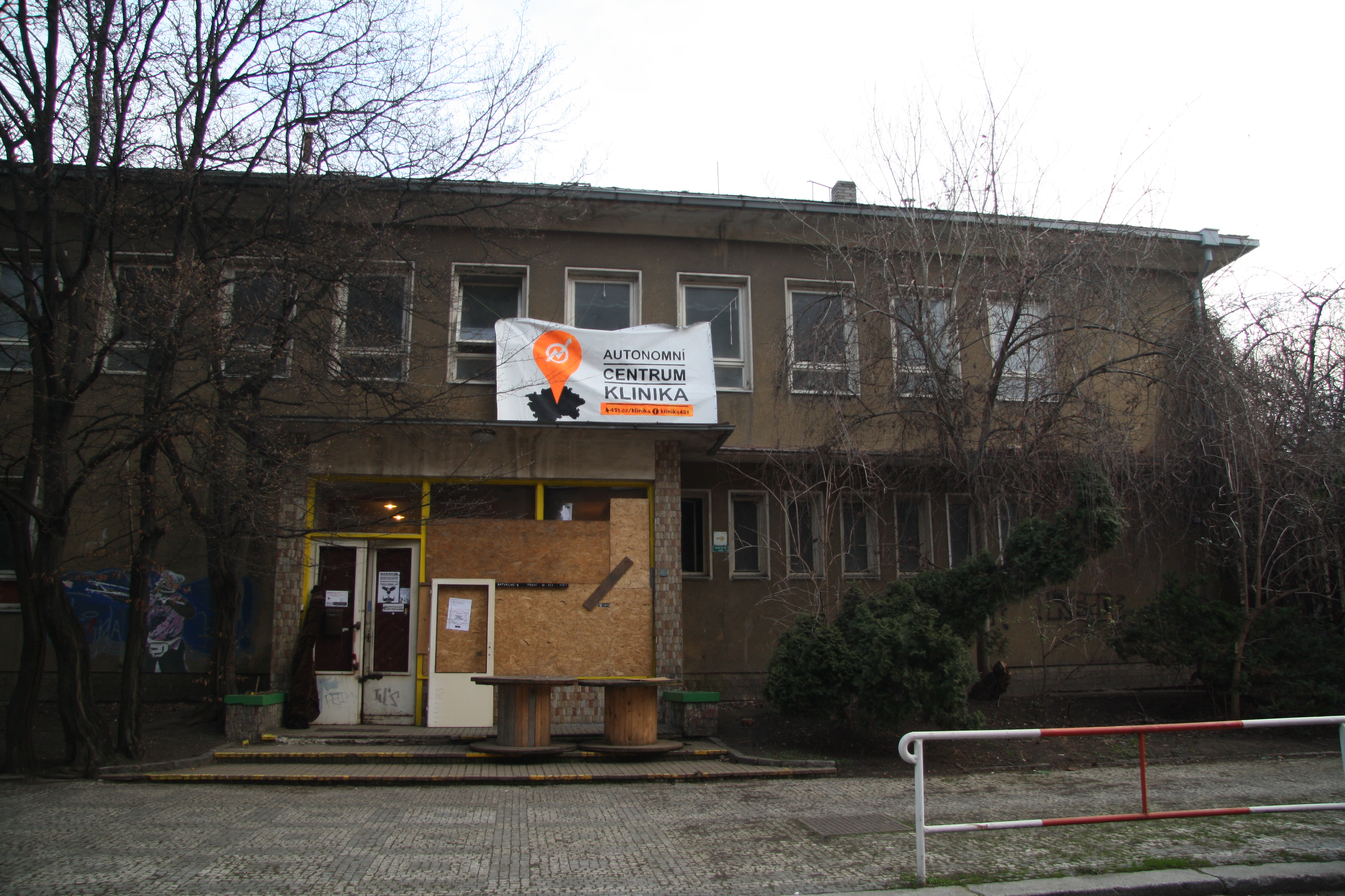 Ovierview of Klinika center in Praha-Žižkov, Praha.